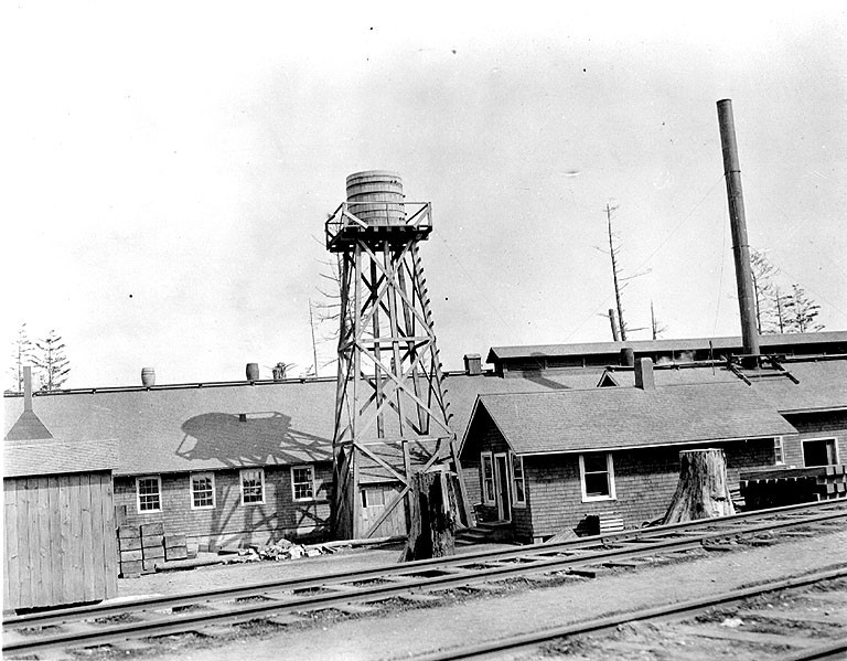 From John Cobb field notebook: Cannery of W.W. Kurtz, Moclips, Wash. 1915 Subjects (LCTGM): Canneries--Washington (State)--Moclips; Water towers--Washington (State)--Moclips Subjects (LCSH): W.W. Kurtz Company; Fisheries--Washington (State)--Moclips